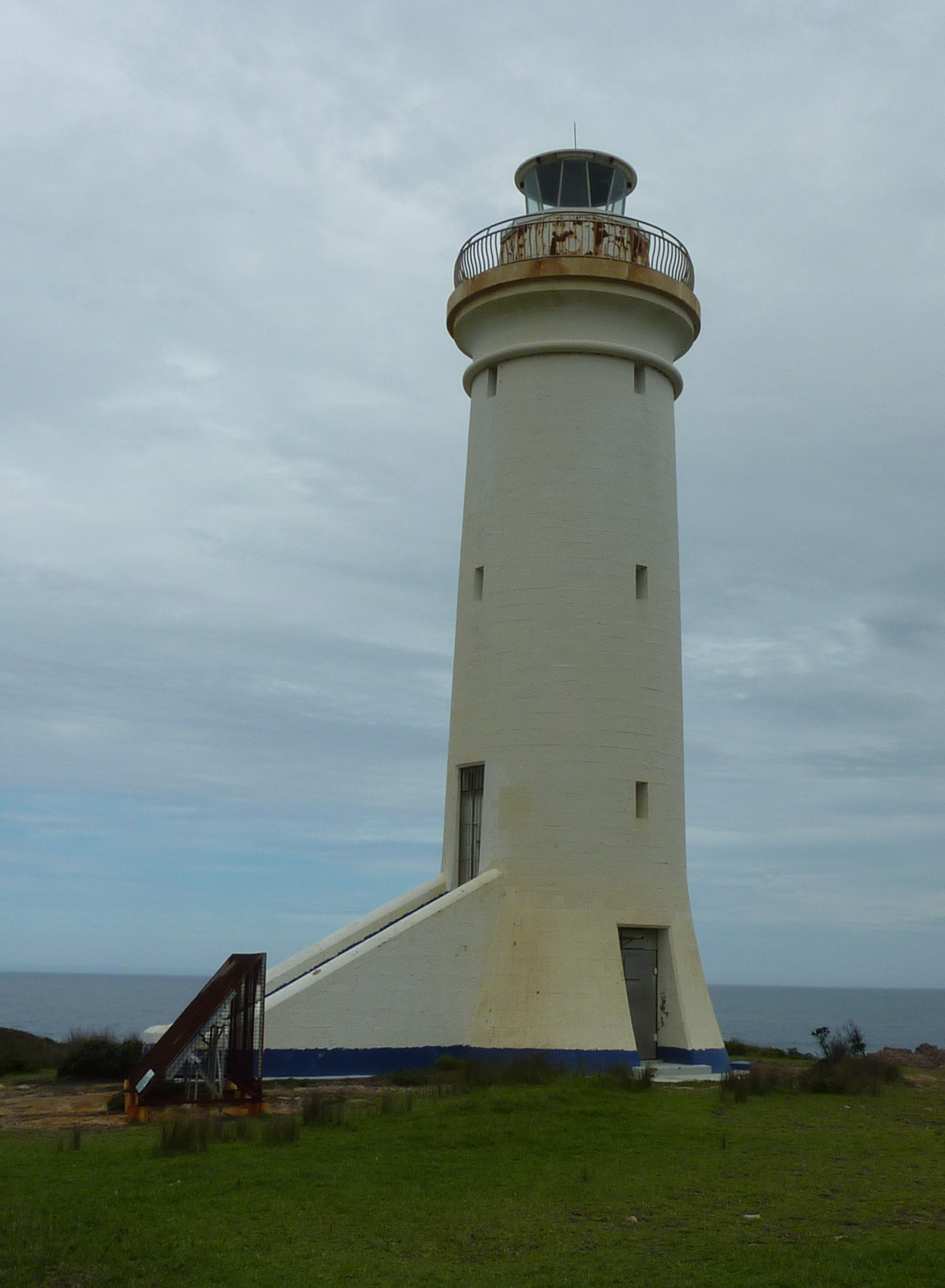 Point Stephens Lighthouse. The structures in front of the lighthouse (seen from the side as triangular) are the solar panels